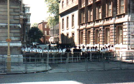 I am the author of this photo. Nedtrifle 11:58, 19 March 2007 (UTC)